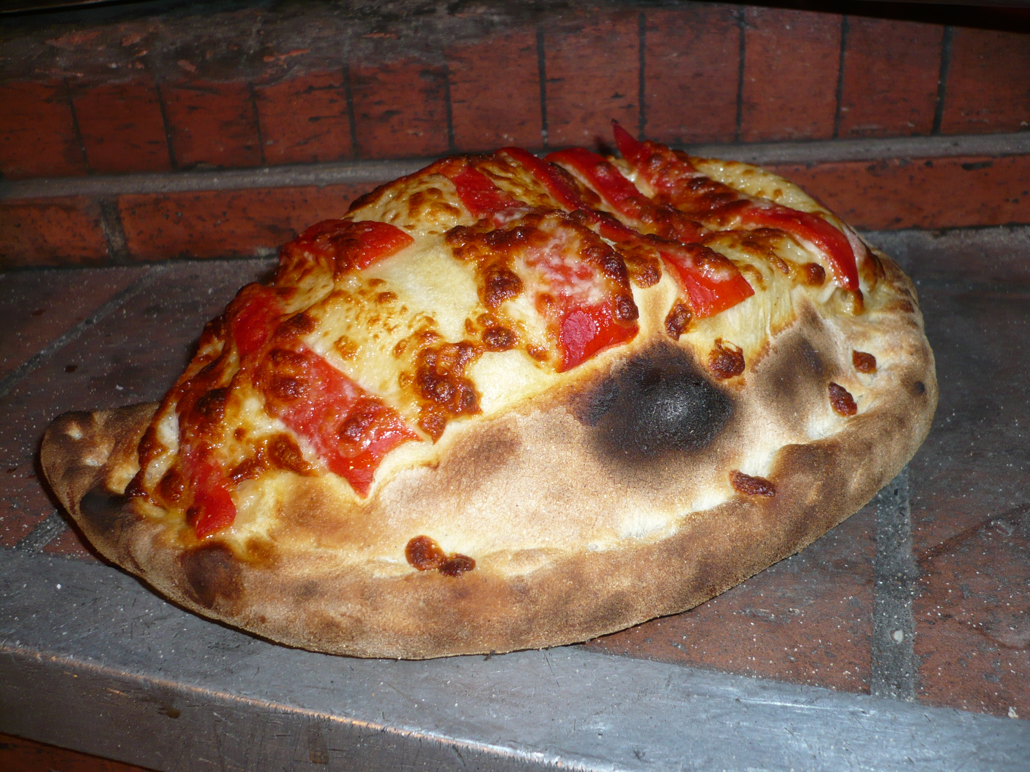 PIZZA-BRAISES 56450 THEIX BRETAGNE FRANCE